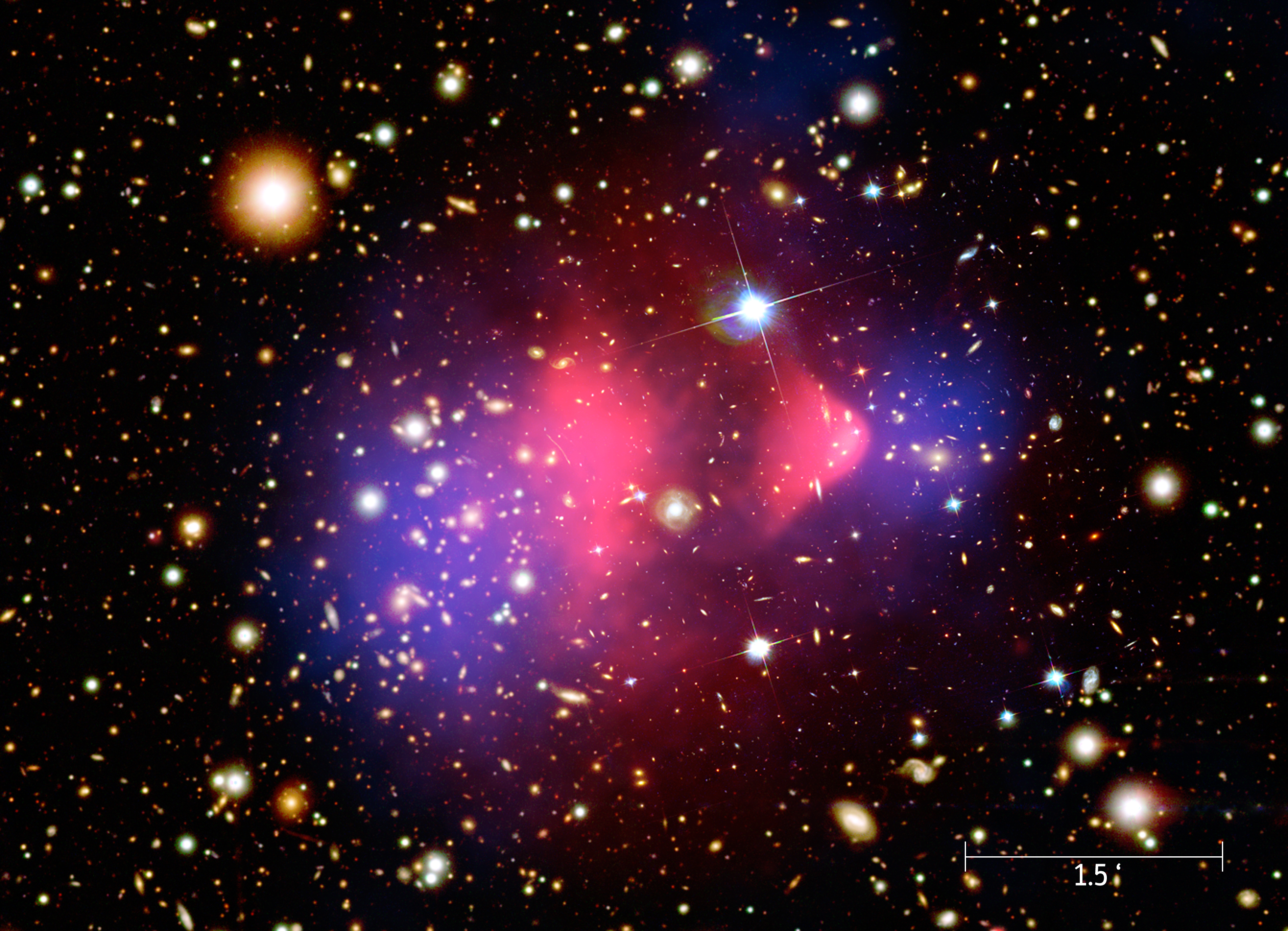 Composite image showing the galaxy cluster 1E 0657-56, better known as bullet cluster. The image in background showing the visible spectrum of light stems from Magellan and Hubble Space Telescope images. The pink overlay shows the x-ray emission (recorded by Chandra Telescope) of the colliding clusters, the blue one represents the mass distribution of the clusters calculated from gravitational lens effects. Scale: Full image is 7.5 arcmin wide, 5.4 arcmin high